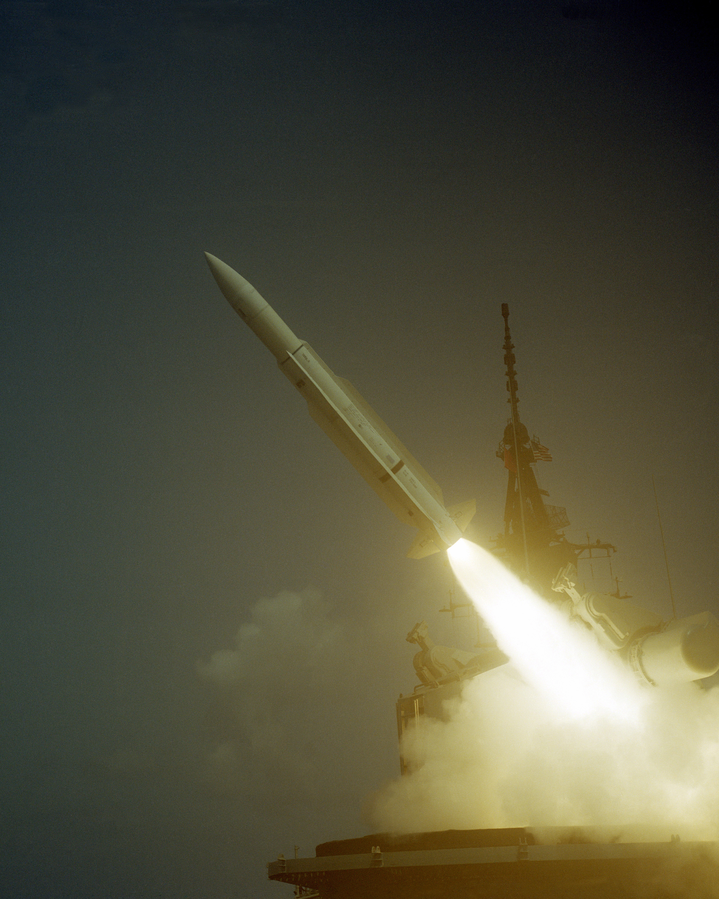 An SM-1 STANDARD MISSILE is launched from the guided missile destroyer USS SAMPSON (DDG 10) near the Atlantic Fleet Weapons Training Facility (ATWTR), Puerto Rico.